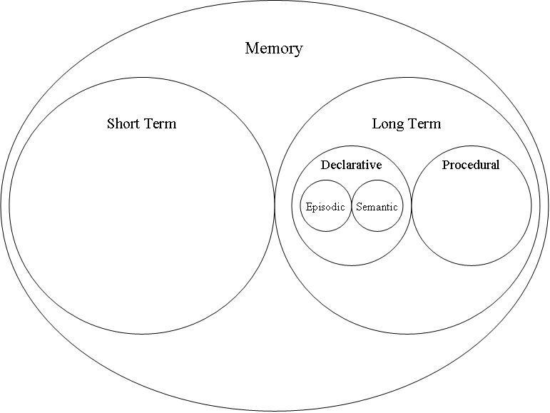 A brief schematic depiction of memory.